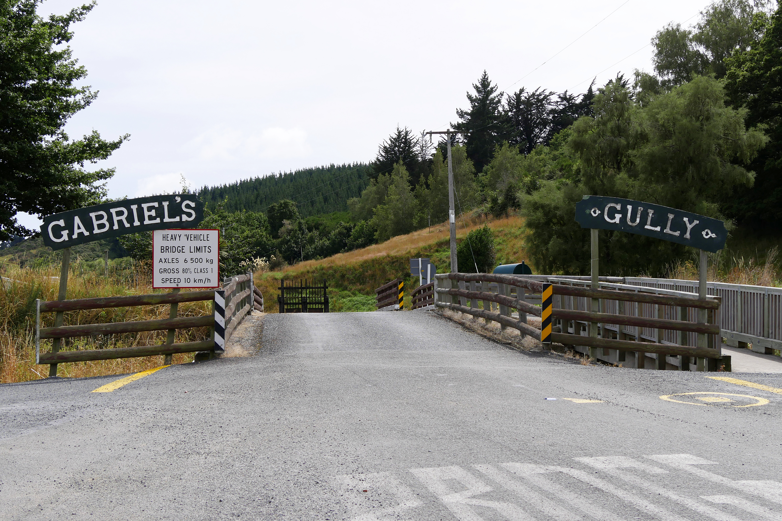 Gabriel's Gully, Entrance to Historical Gold Mining Area, Otago Region, South Island, New Zealand